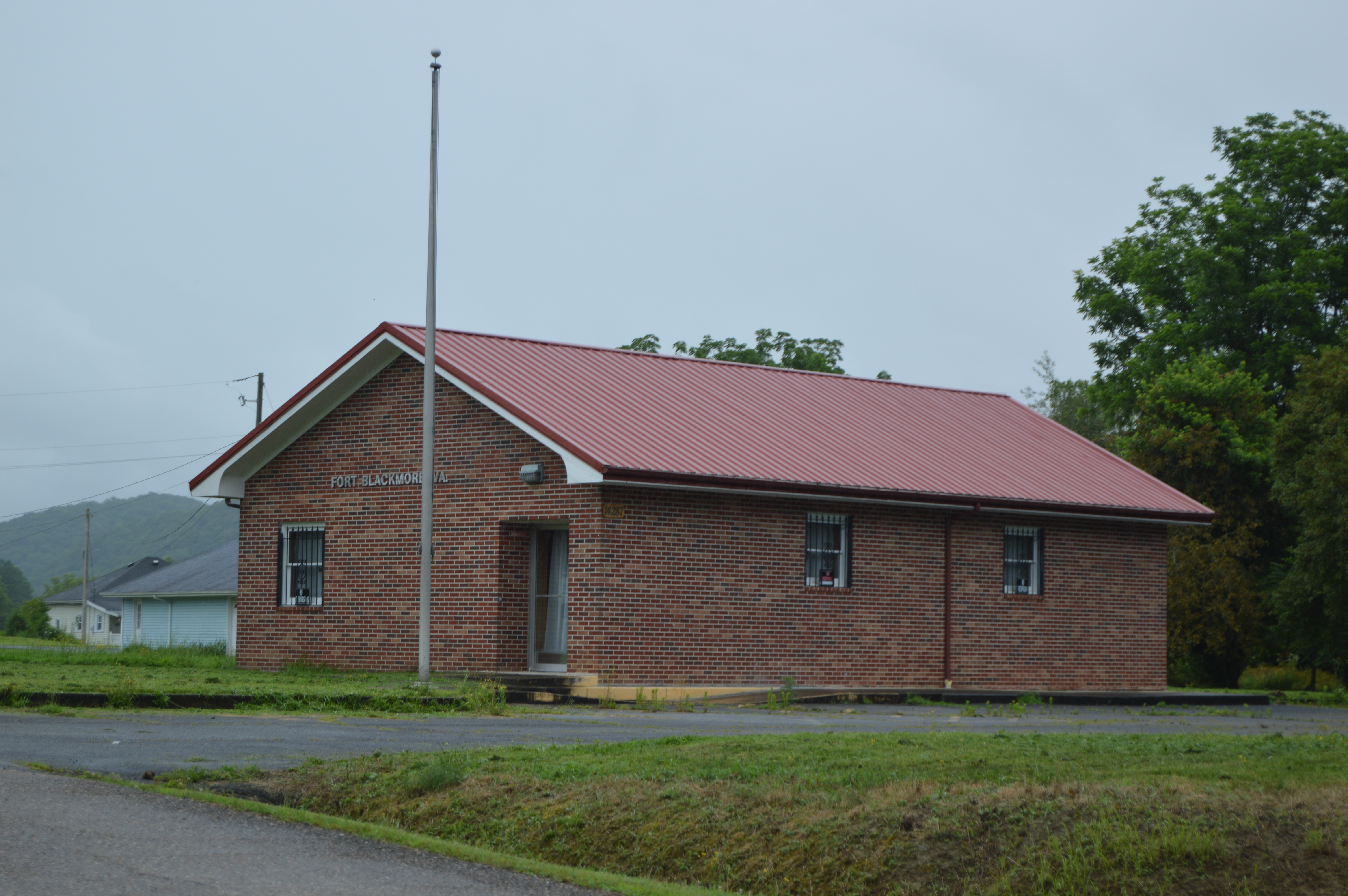 Front and southwestern side (facing State Route 65) of the abandoned former post office at Fort Blackmore in Scott County, Virginia, United States.